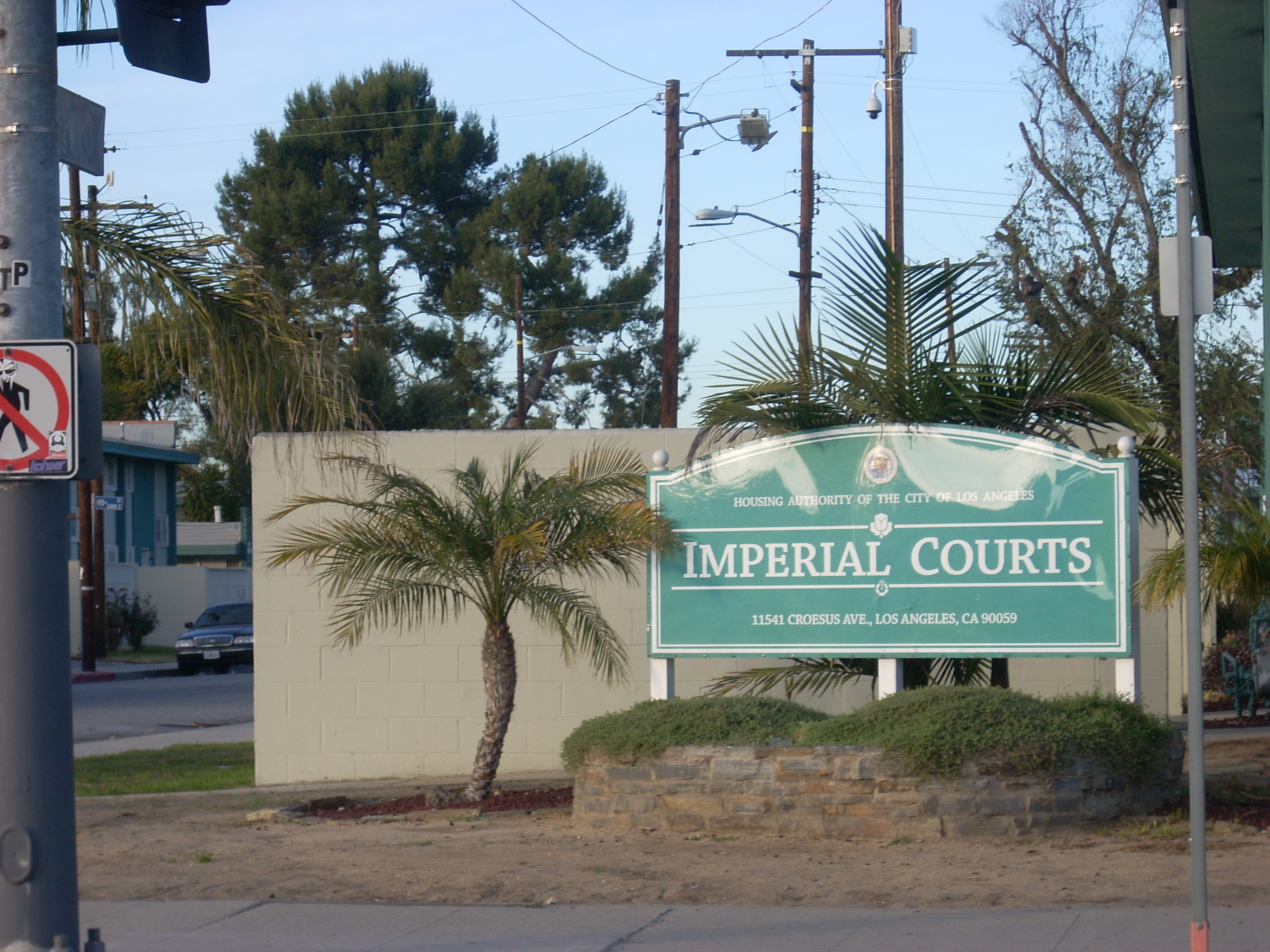 Signage for Imperial Courts housing project — in Watts, Los Angeles, California.